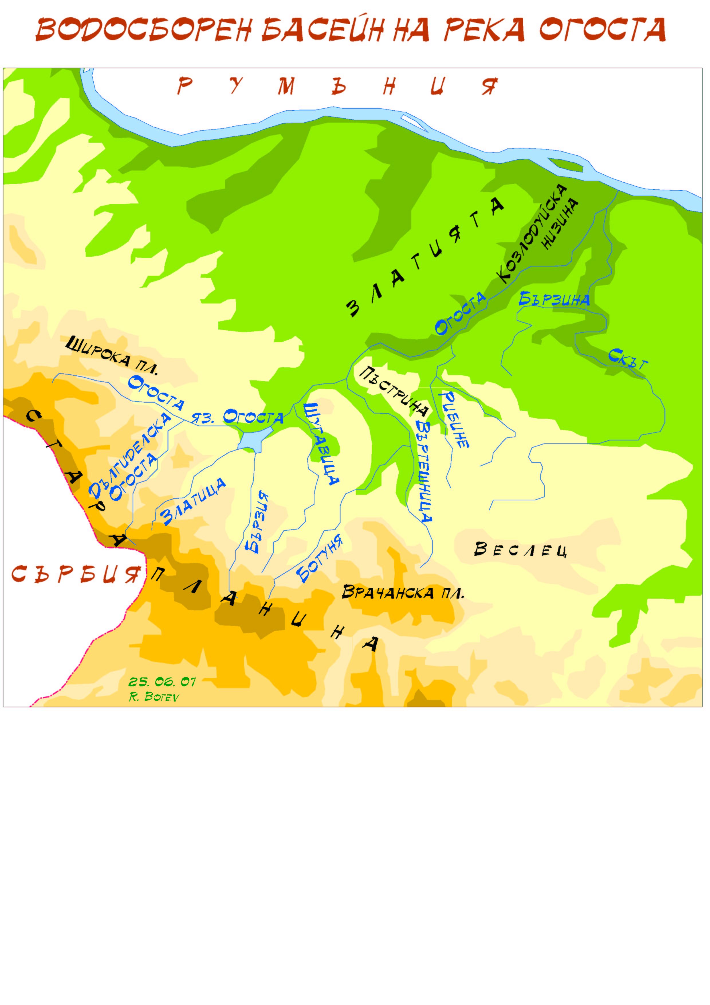 Map of Ogosta Bassin in Bulgaria